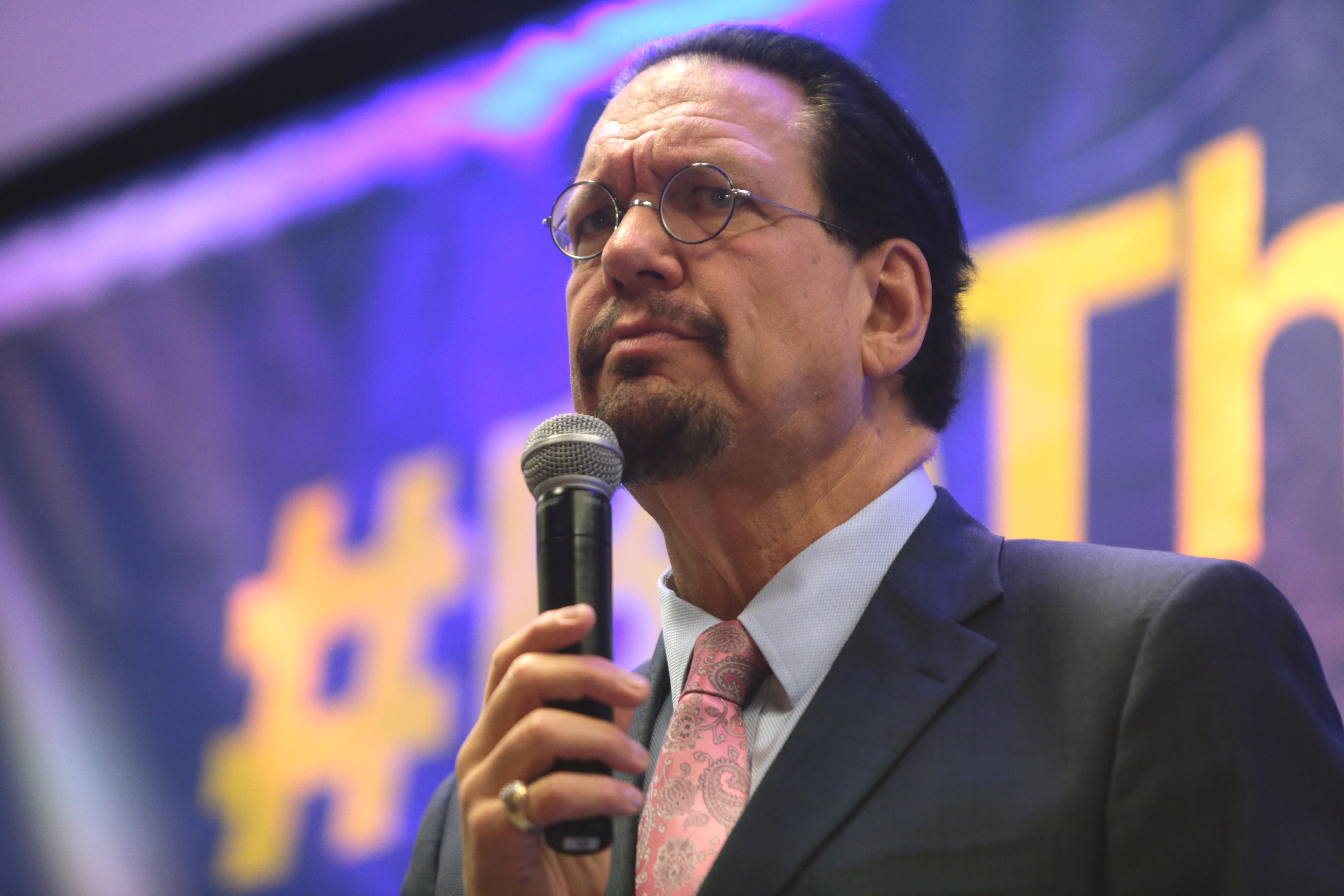 Penn Jillette speaking at the 2016 Young Americans for Liberty National Convention at the Catholic University of America in Washington, D.C.